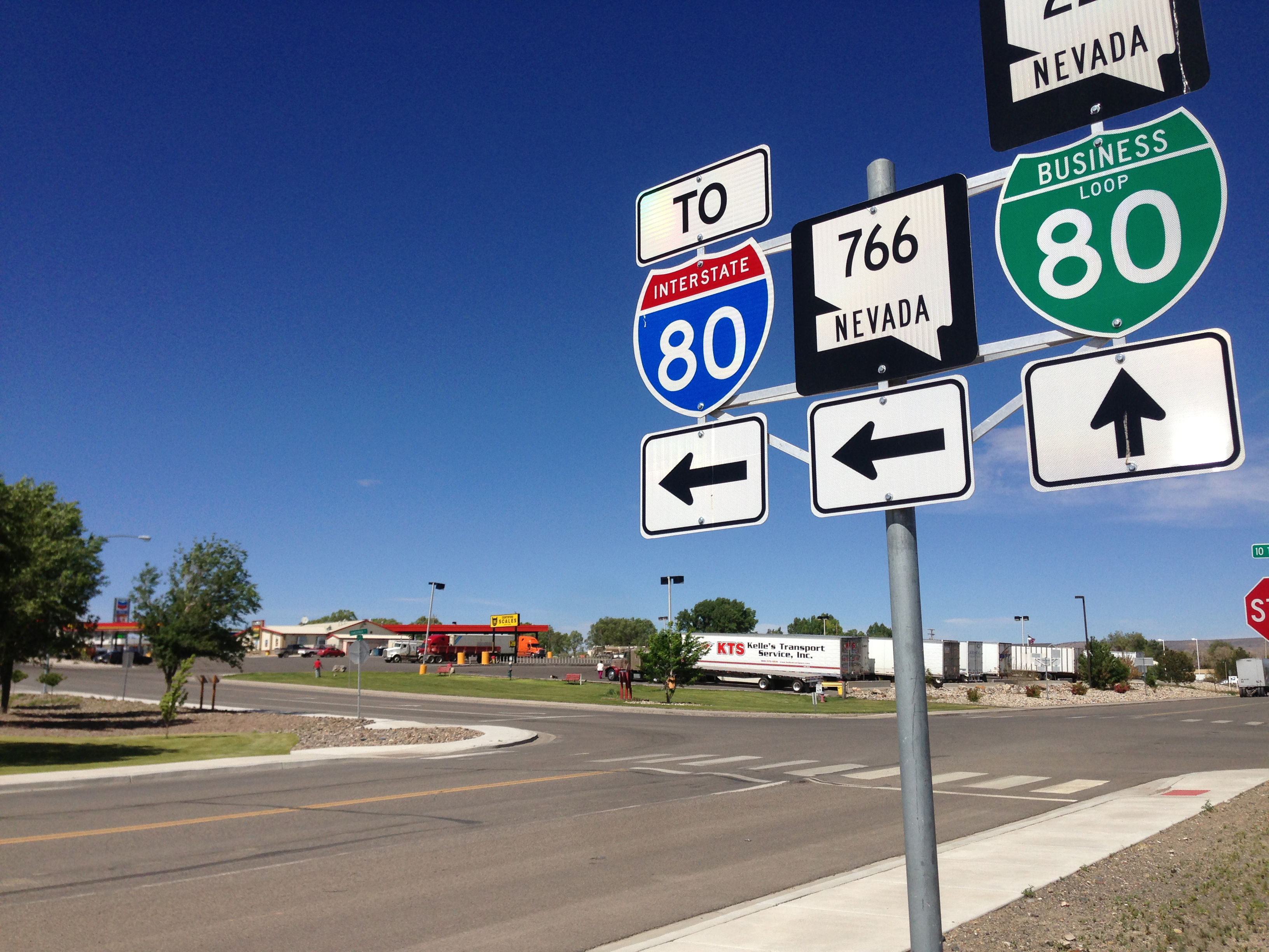 View east along Nevada State Route 221 (Chestnut Street) at the south end of Nevada State Route 766 (10th Street) in Carlin, Nevada